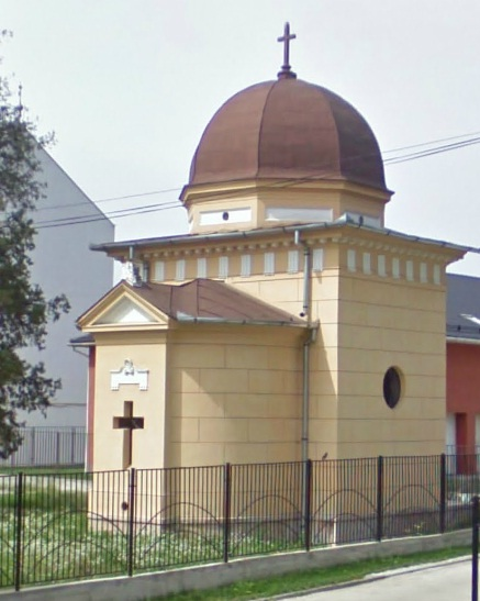 Oradea